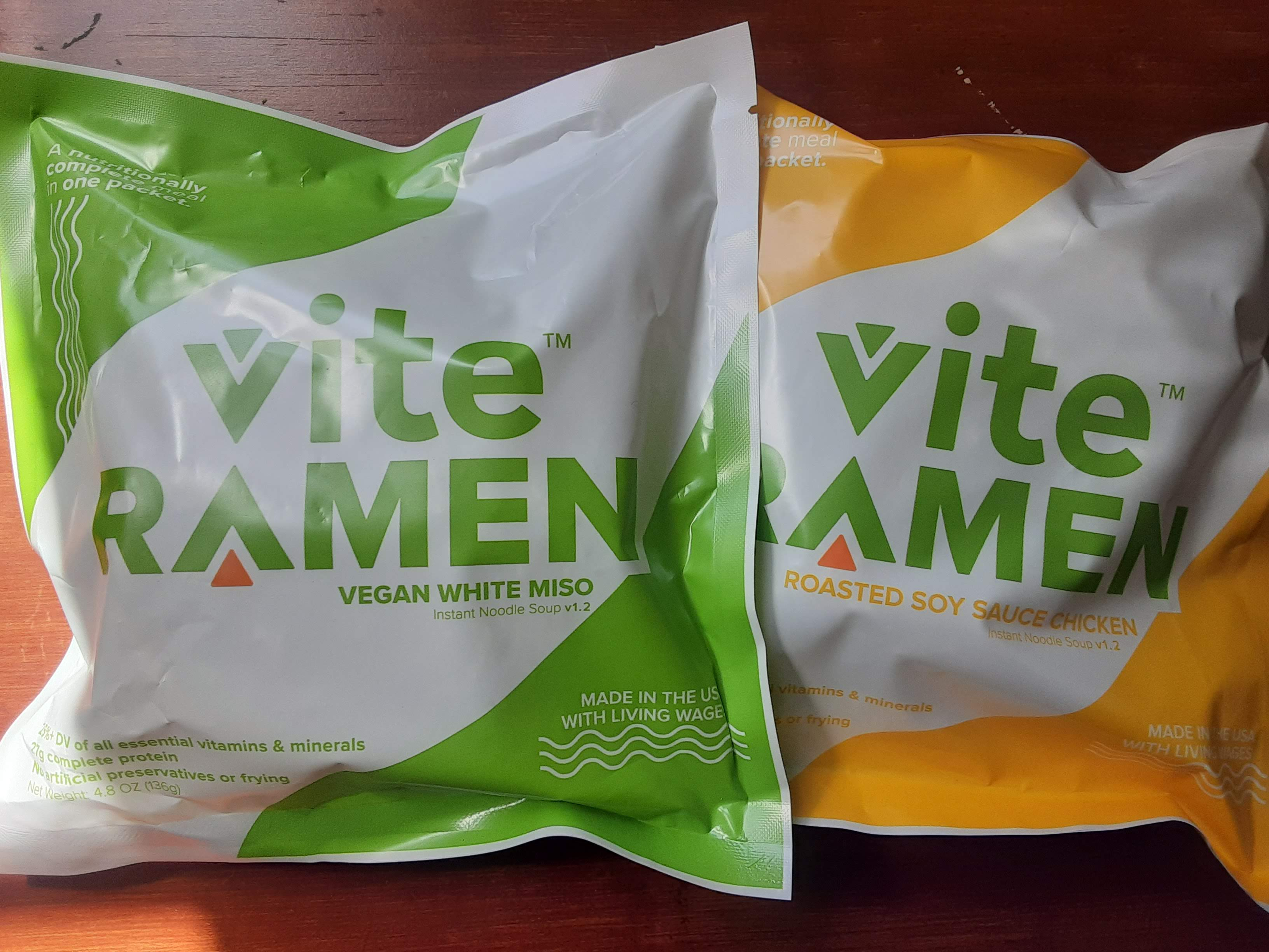 Vite Ramen claims its product is a nutritionally complete instant ramen noodle brand.